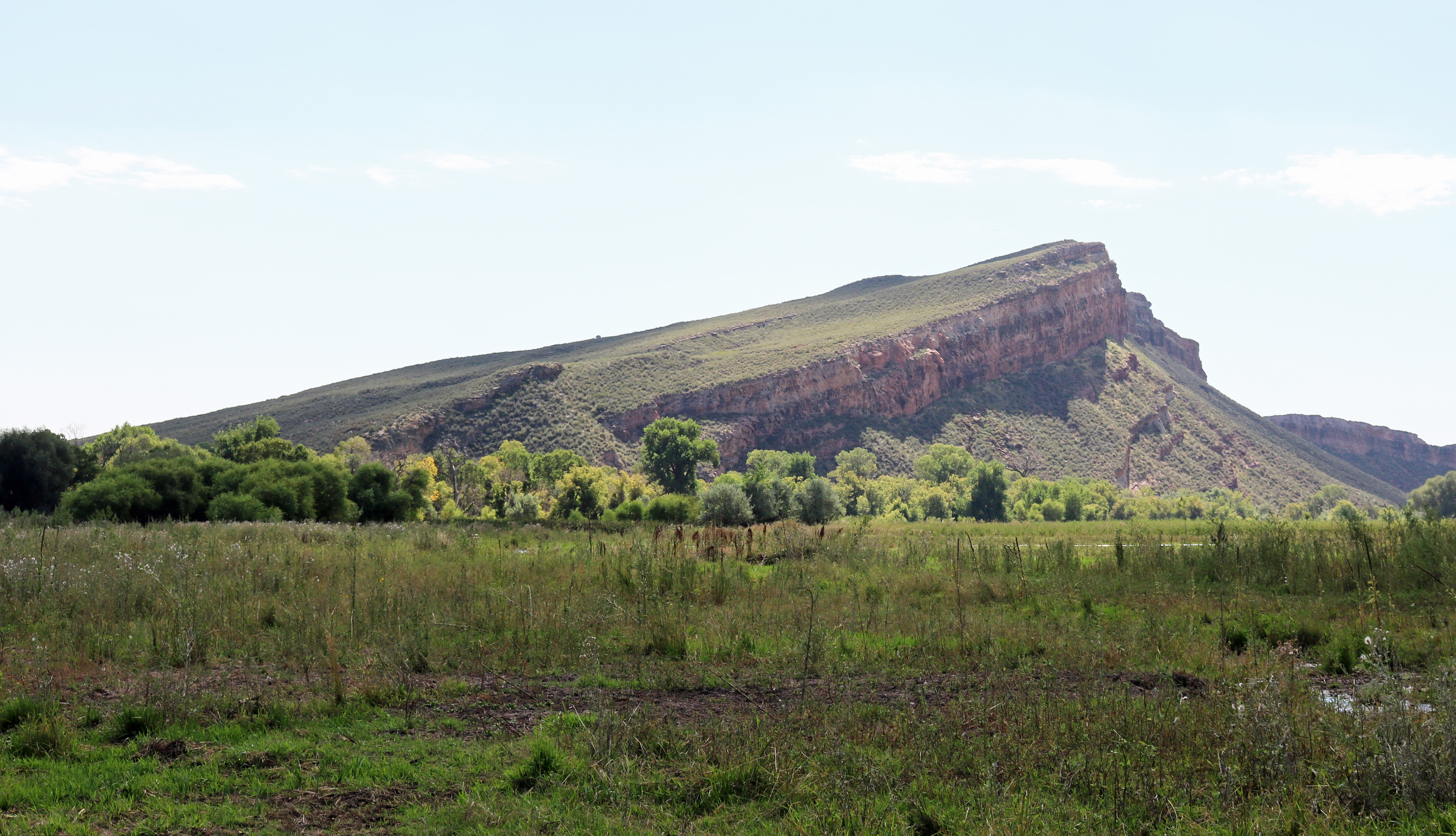 Goat Hill, also called Bellvue Dome, a mountain (dome), in Larimer County, Colorado, near U.S. Highway 287.